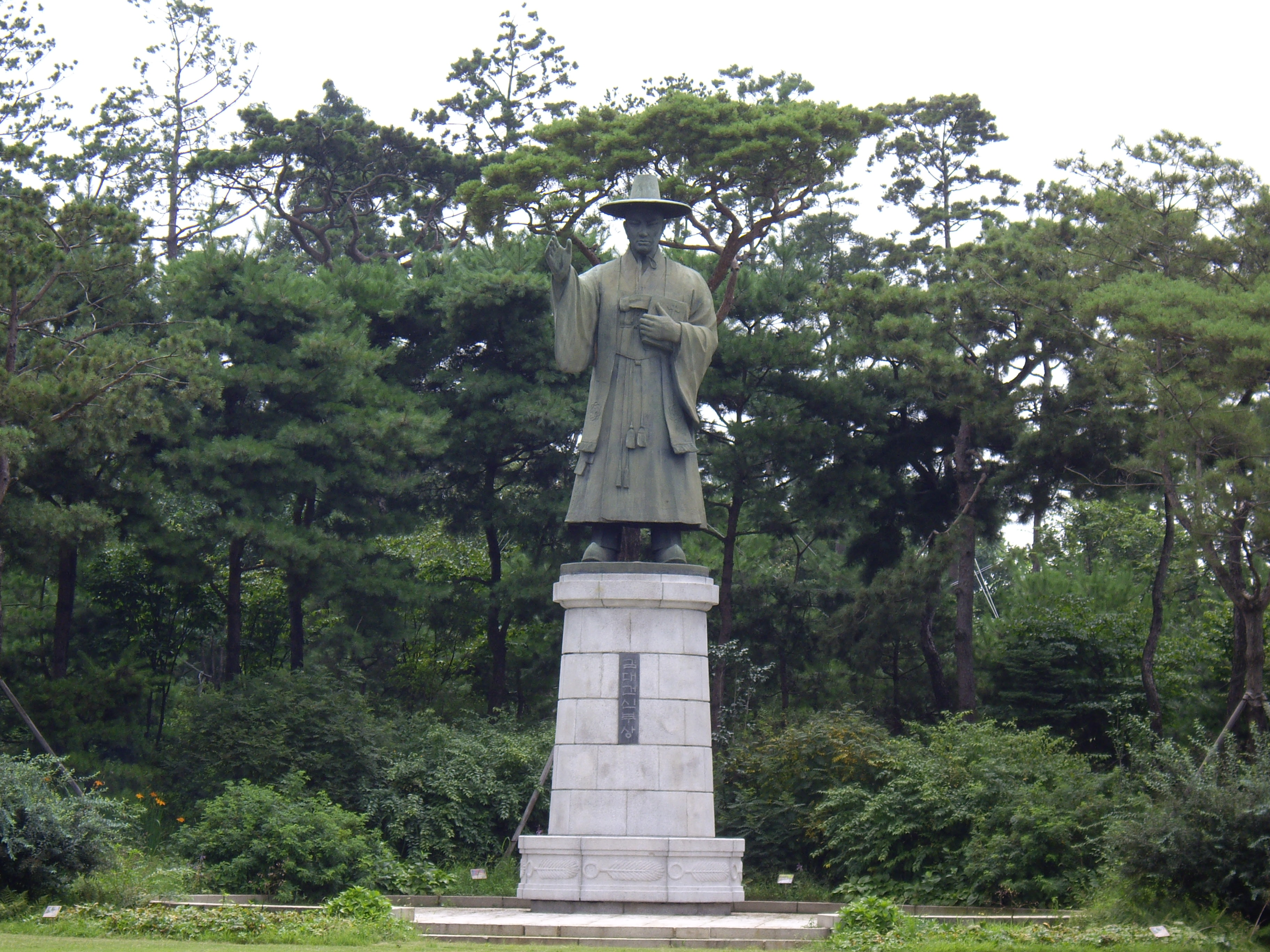 Statue of Andrew Kim Taegon in